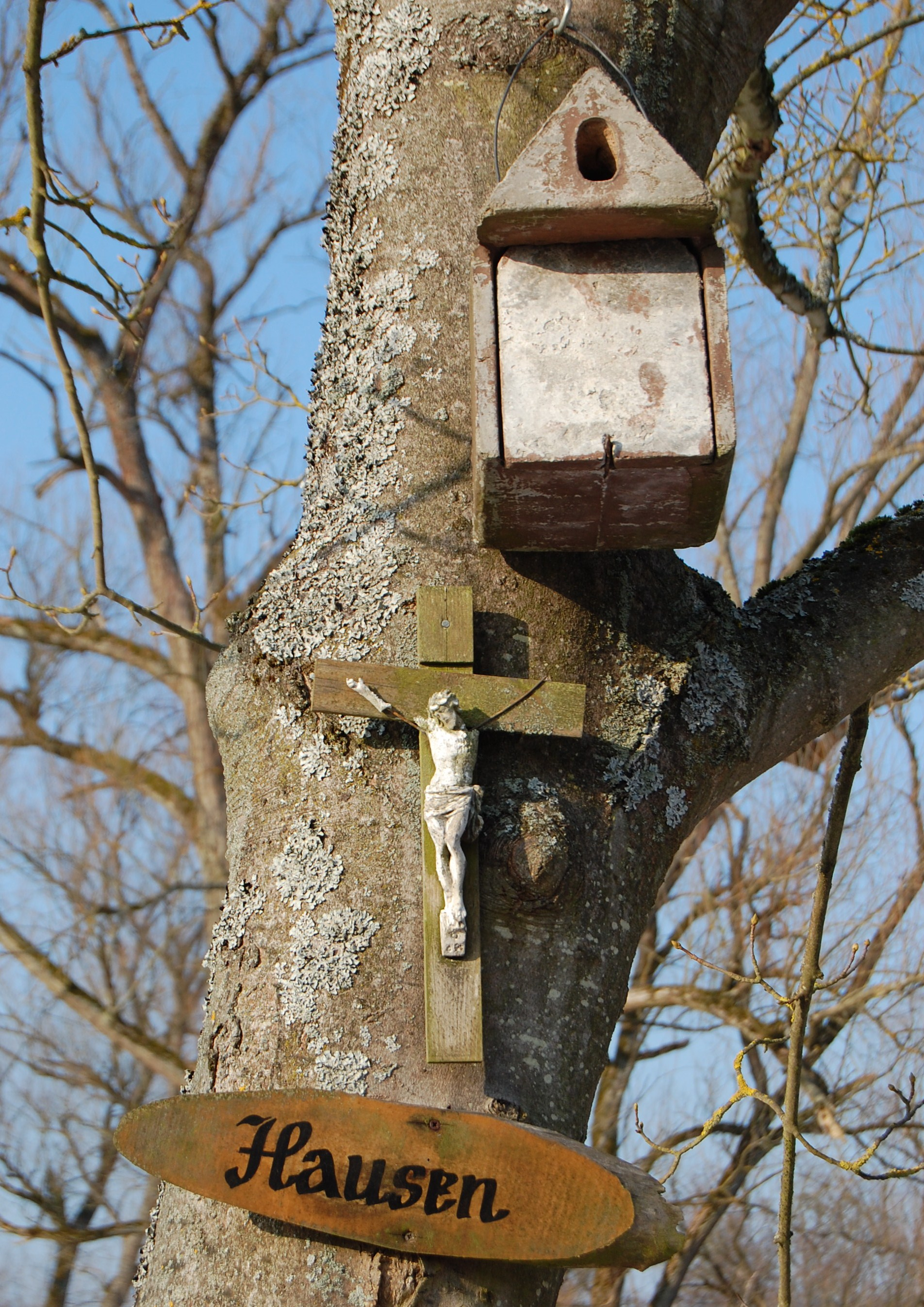 Nest box in Bad Kissingen-Hausen (Bavaria)